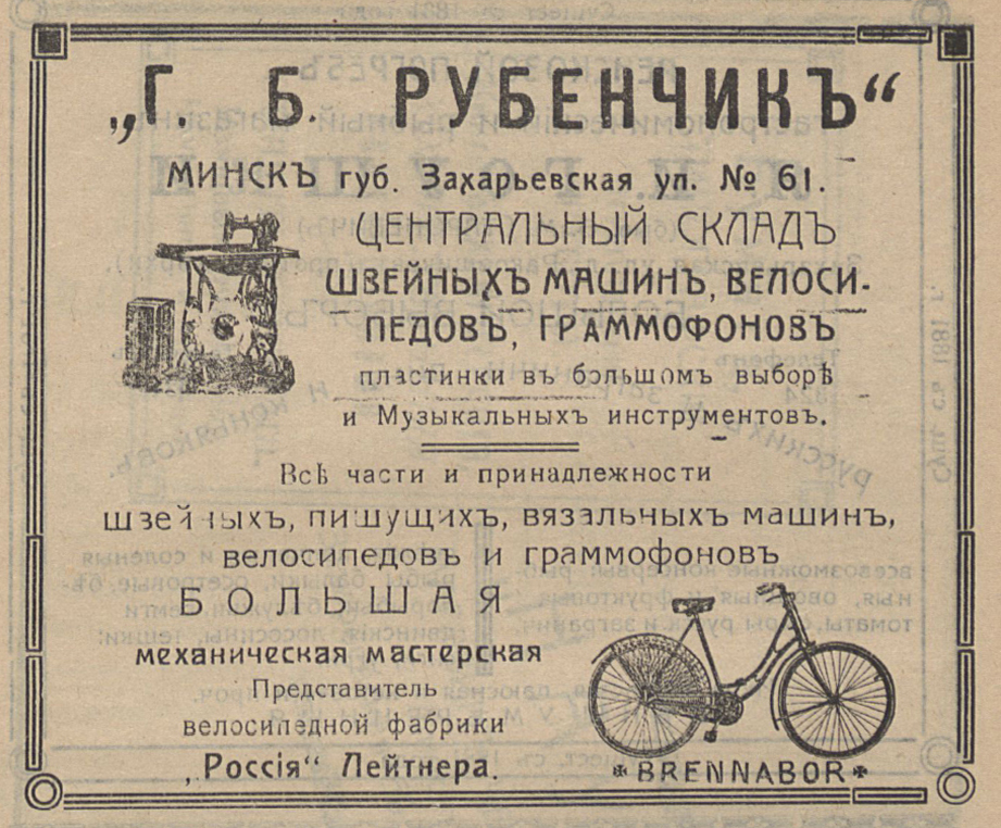 In a paper.